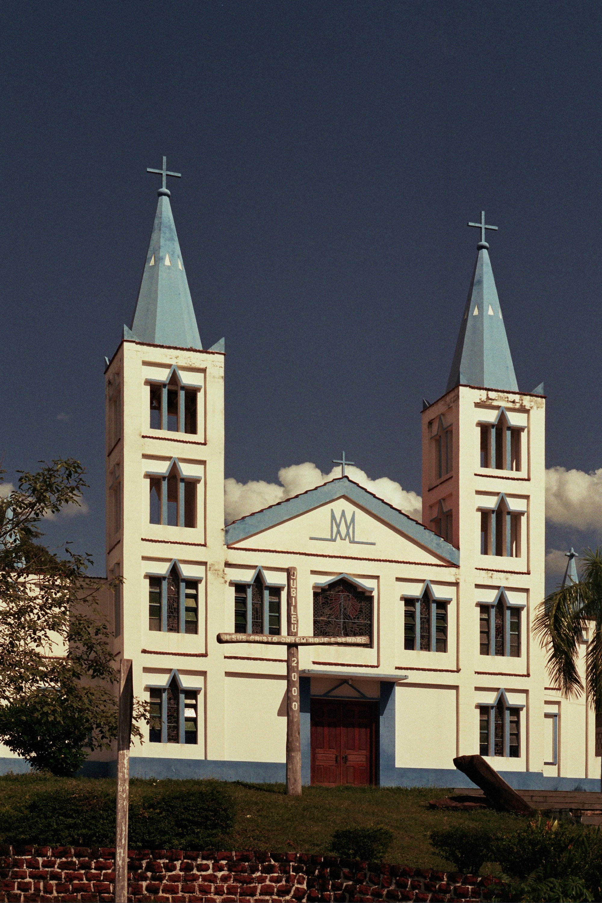 Antiga Catedral de Nossa Senhora da Conceição, Diamantino. Foto com correção de perspectiva. Pentax K1000 - Pentax 50mm f/2.0 Filme Fuji Superia 400